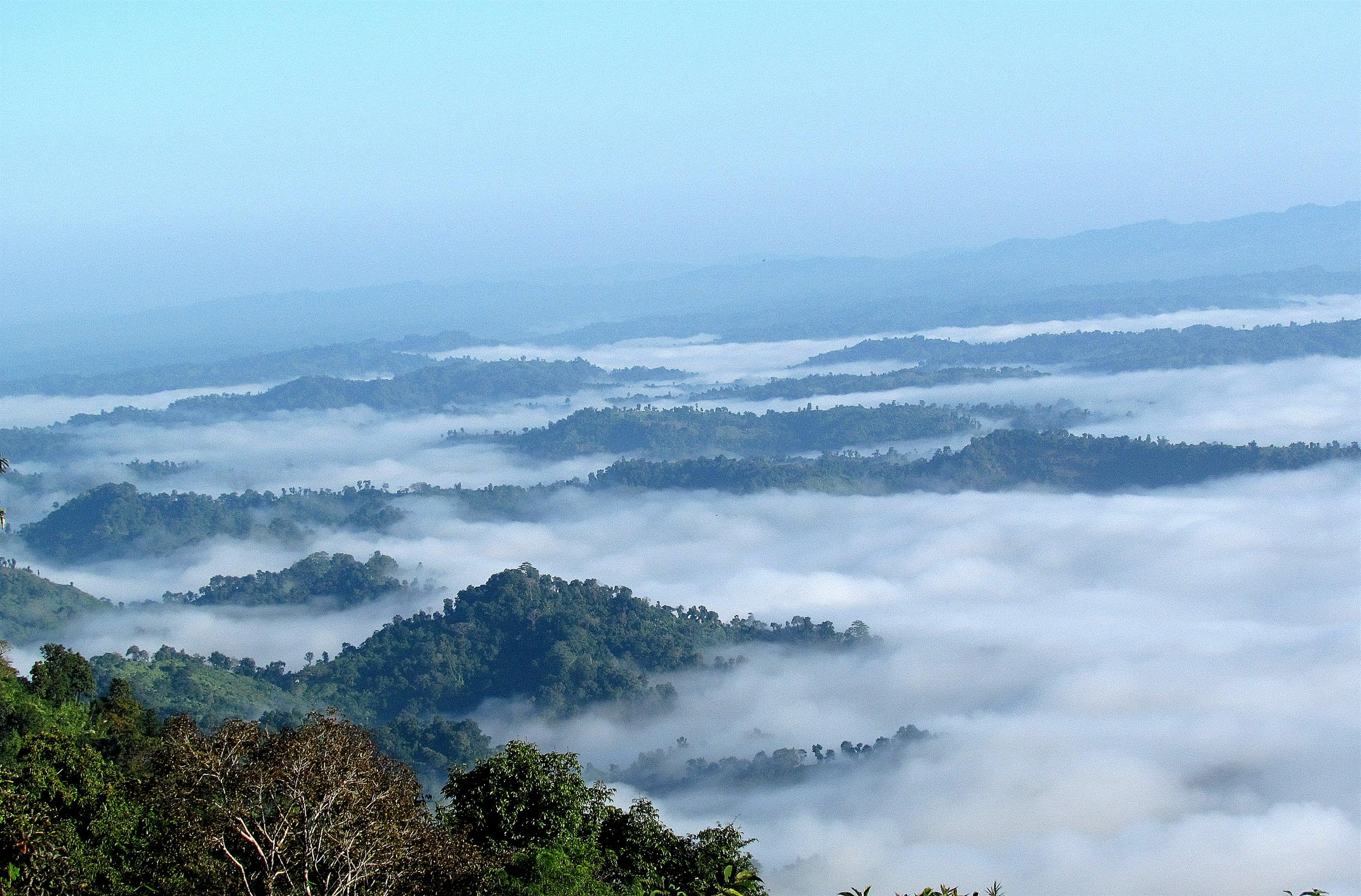 nilgir